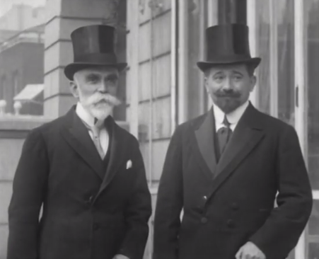 Bernardino Machado and Afonso Costa in London, 1917.